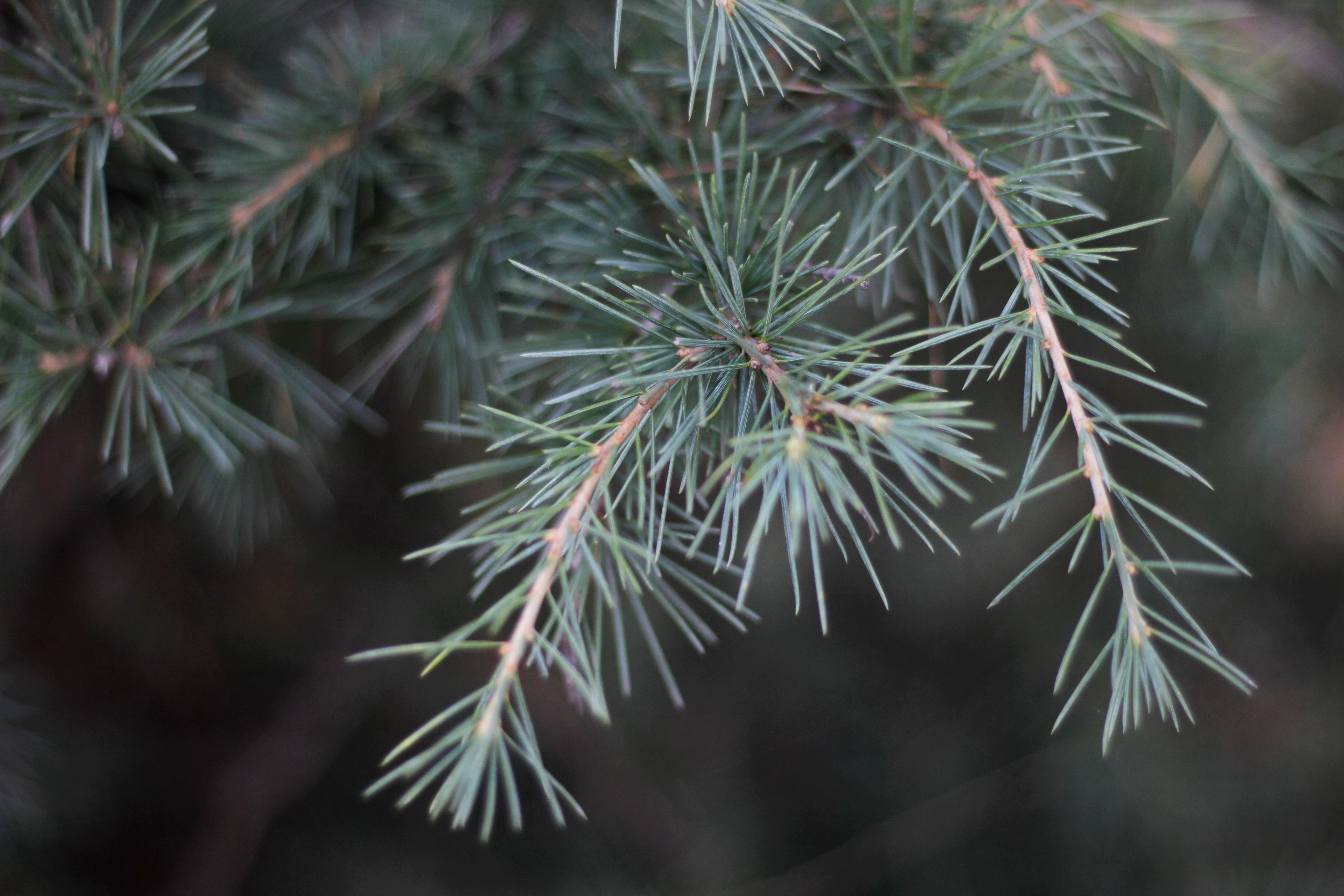 Leaves of Cedrus deodara